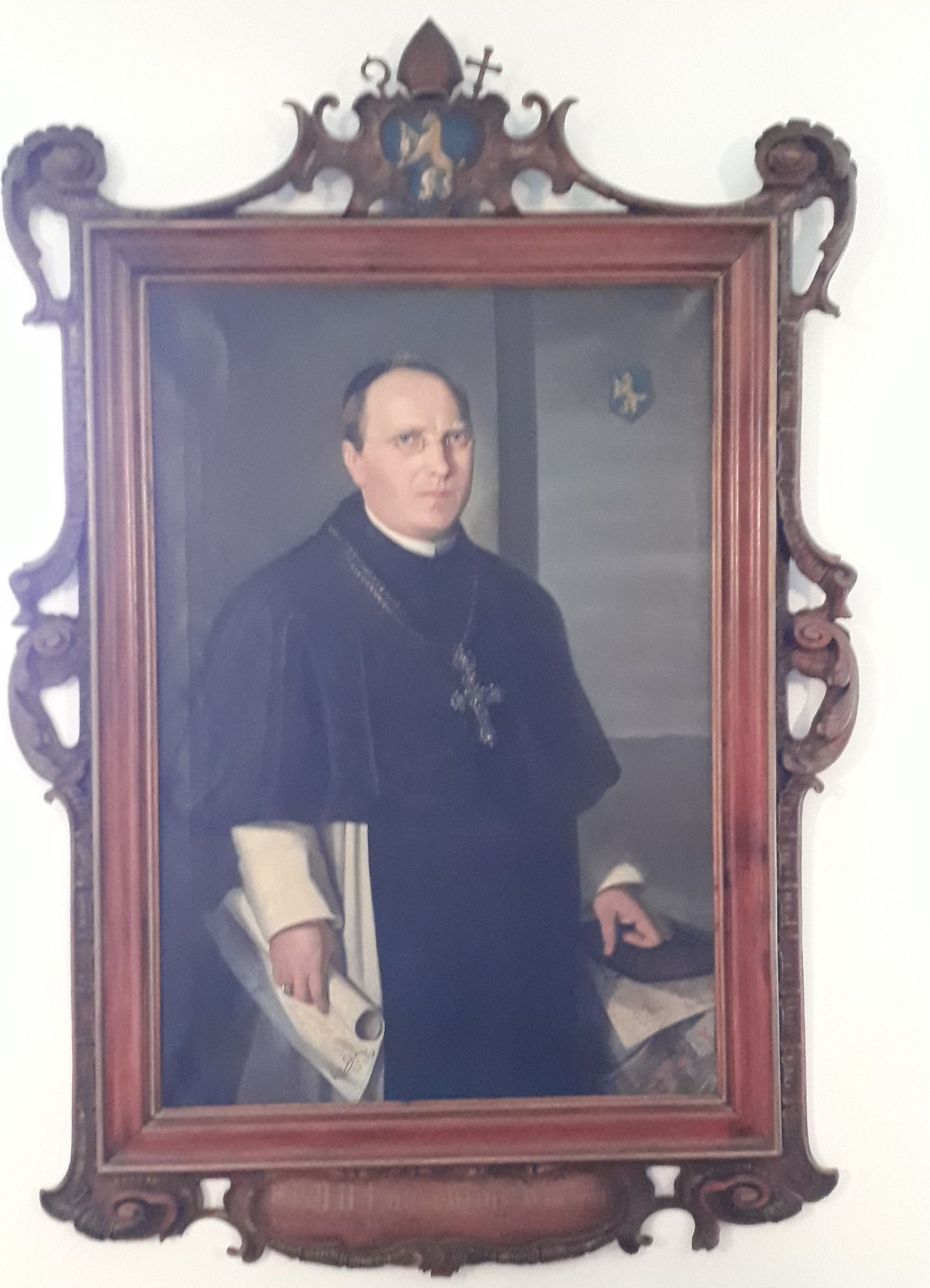 Mehrerau Abbey in Bregenz (Wettingen-Mehrerau Territorial Abbey), Vorarlberg, Austria. Painting.